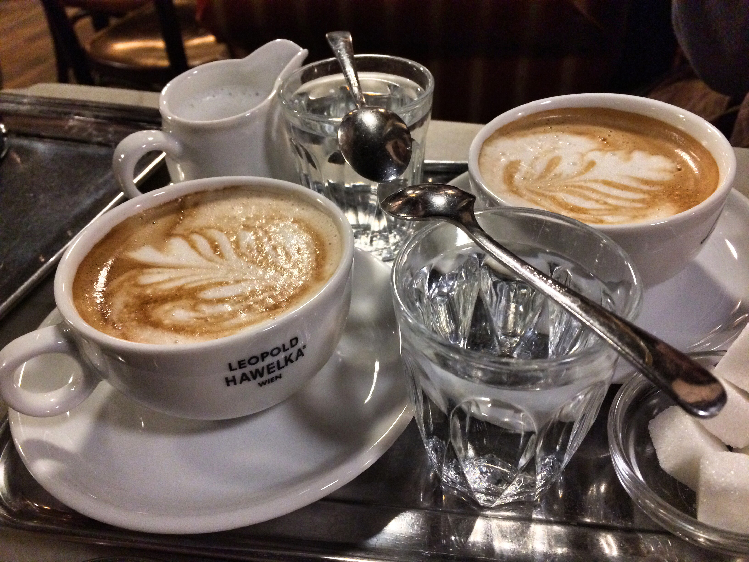 Typical "Melange" coffee (like a cappuccino) in the Café Hawelka, Vienna, Austria.